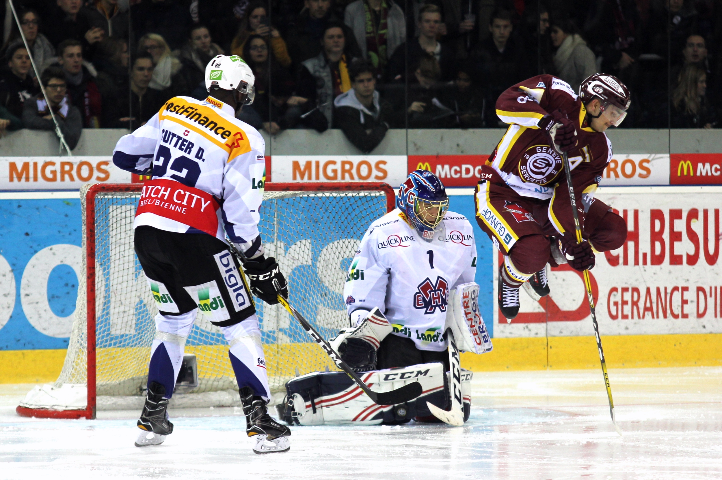 Dave Sutter (B 22), Jonas Hiller (B 1), Cody Almond (G 89).